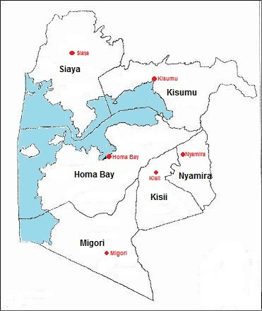 Counties in Nyanza Province (Kenya)